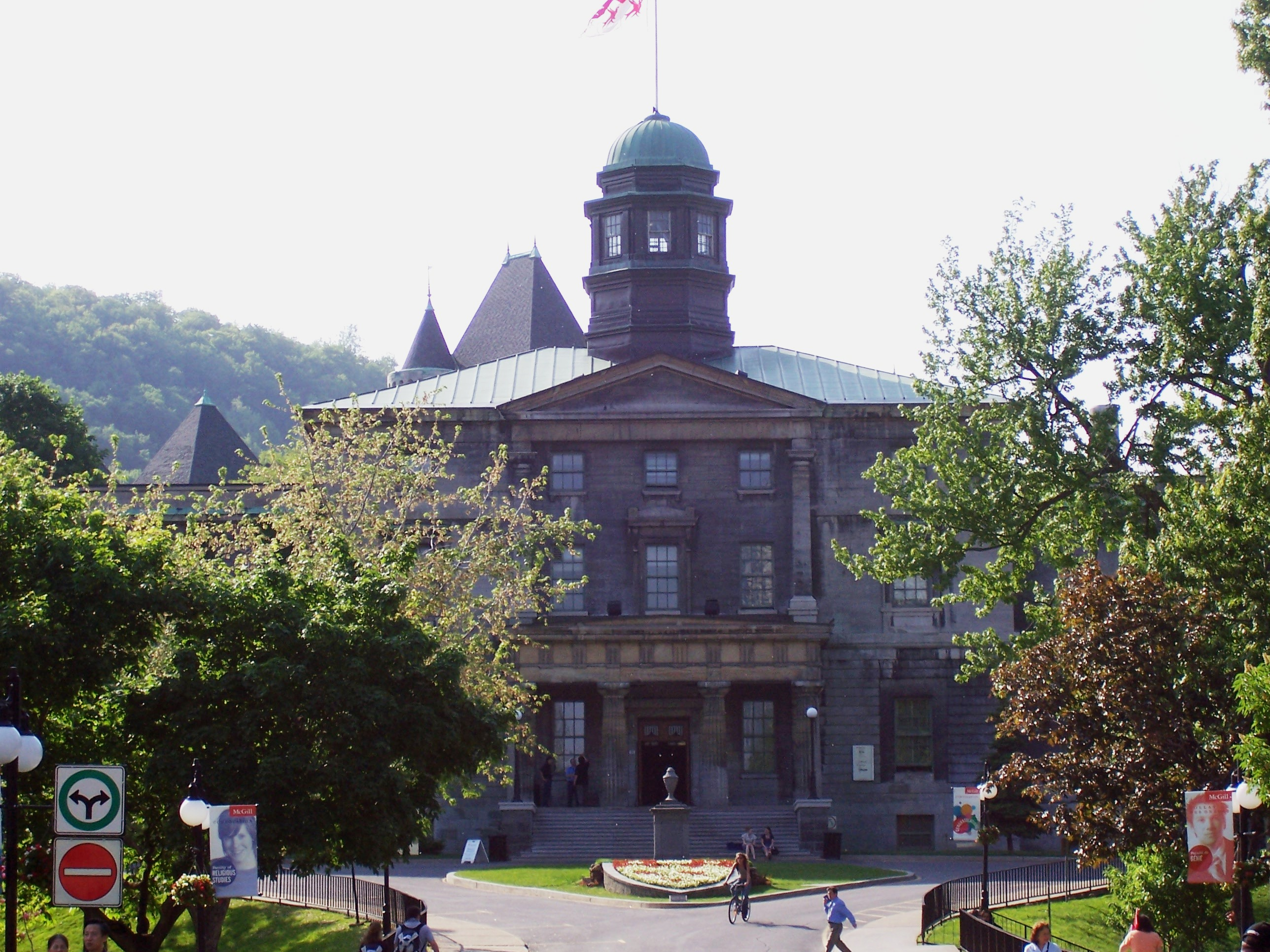 Photo of the McGill University Arts Building, in Montreal, Quebec, Canada. taken by en.wikipedia user Beltz.